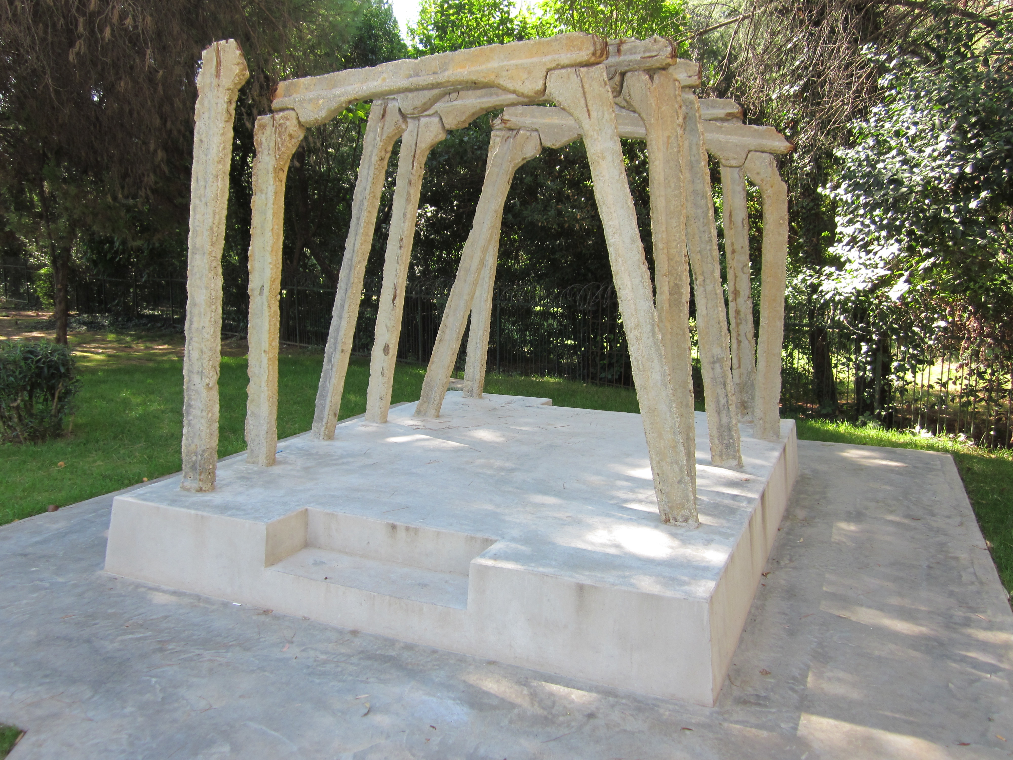 Concrete supports from the Burgu i Spaçit prison camp in the Post-bllok monument in Tirana (Rruga Ismael Qemali)